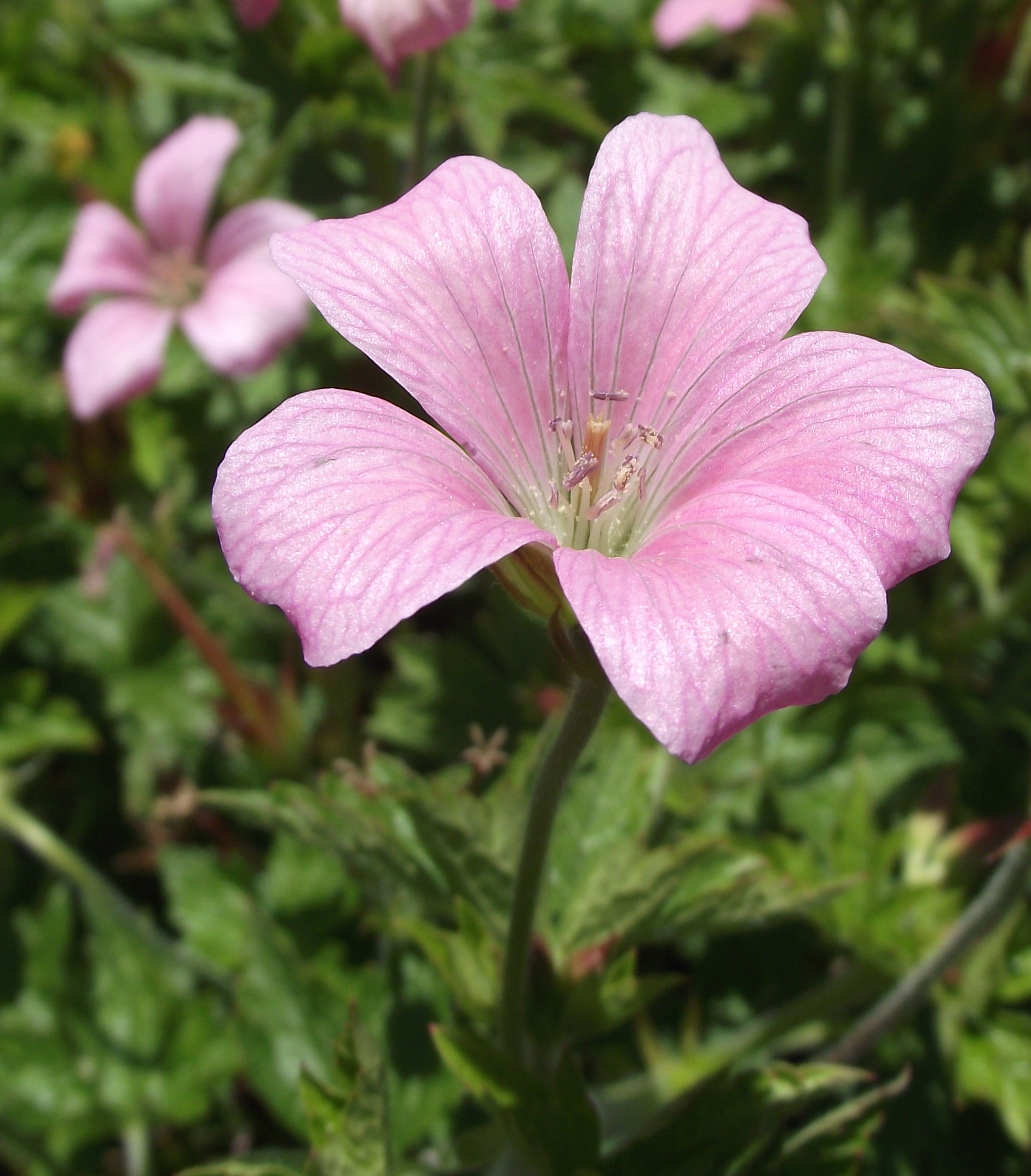 Geranium endressii 'Wargraves Pink' in the UC Botanical Garden, Berkeley, California, USA. Identified by sign.